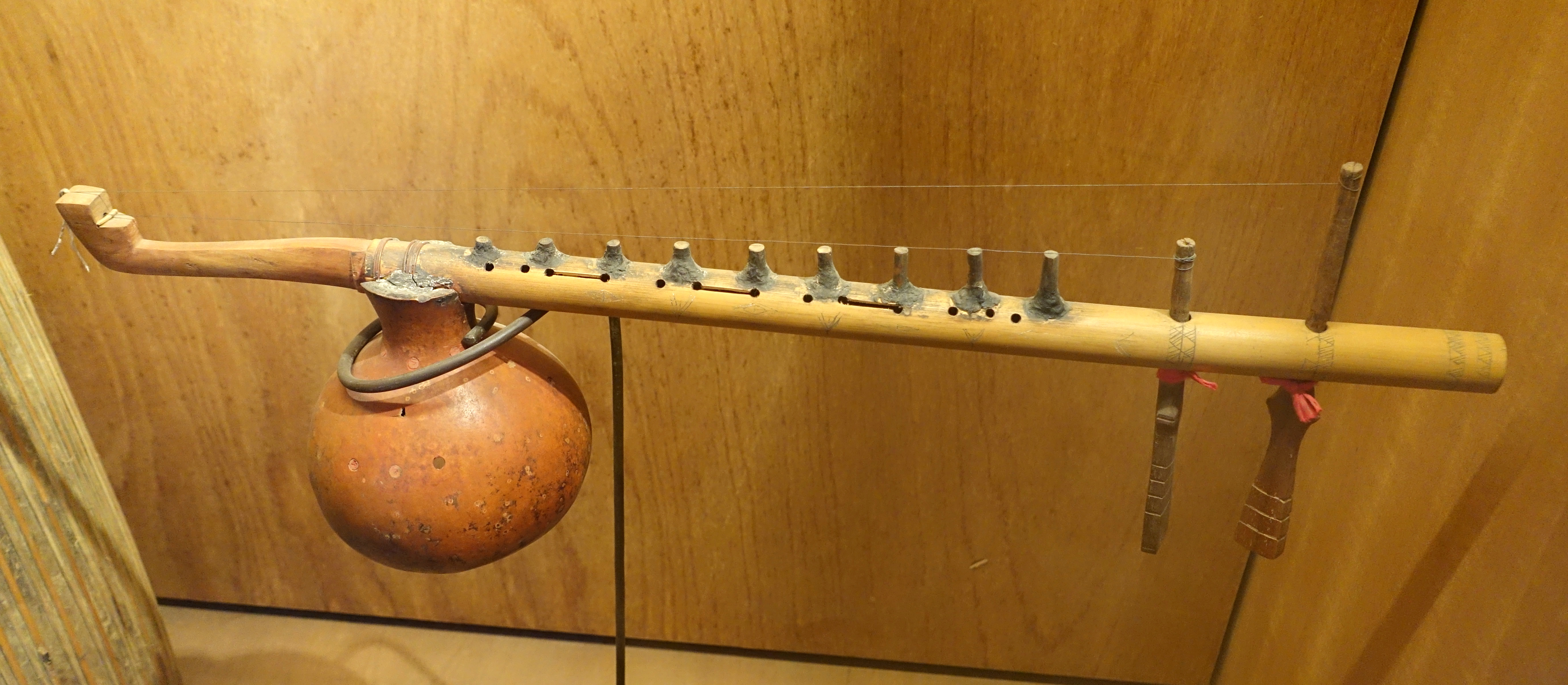 Exhibit in the Vietnam Museum of Ethnology - Hanoi, Vietnam.